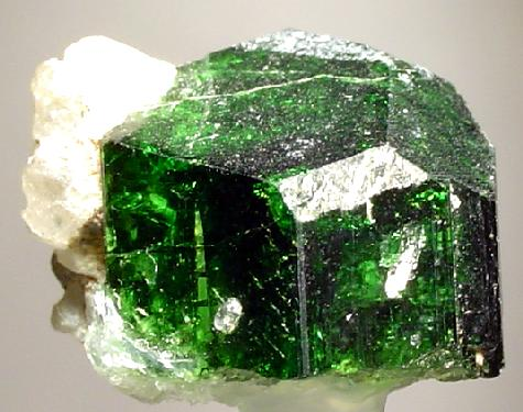 Dravite Locality: Merelani Hills (Mererani), Lelatema Mts, Arusha Region, Tanzania (Locality at ) A beautiful, lustrous, gemmy and sharp, green chrome dravite tourmaline, with a bit of matrix, from a very uncommon locality in Tanzania. Chrome dravite is an rare tourmaline varietal and this is a good one making for a wonderful thumbnail specimen. Ex Ed Ruggiero Collection. 1.4 x 0.9 x 0.9 cm